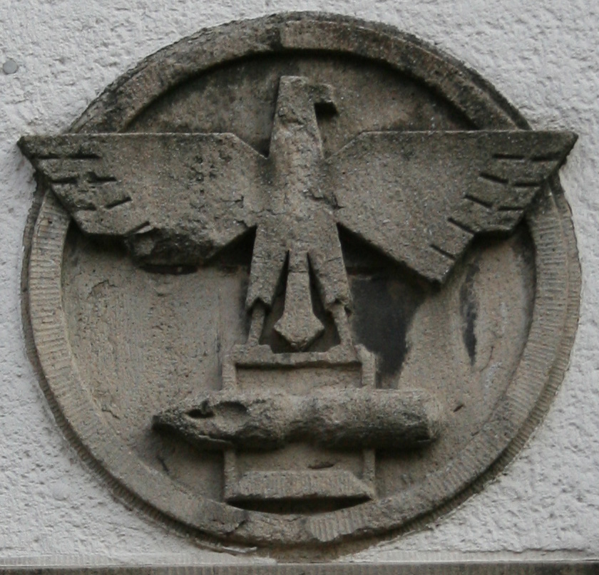 Logo of Soennecken on the former factory building, Kirschallee, Bonn, Germany.